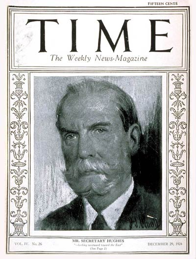 Charles Evans Hughes on Time magazine cover, 1924.